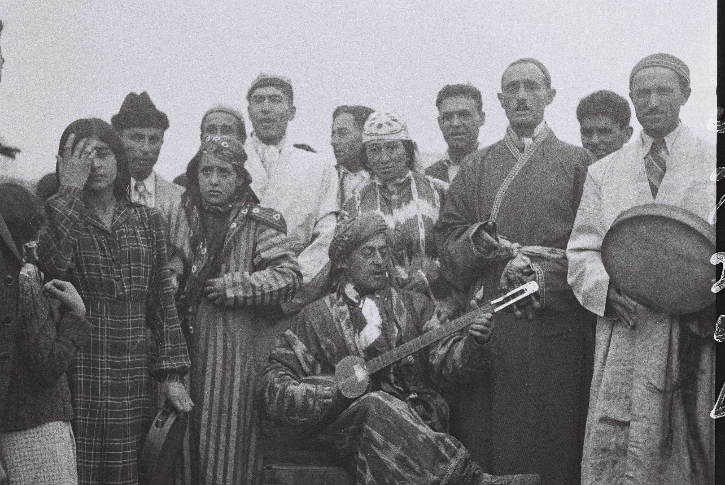 A GROUP OF IMMIGRANTS FROM BUCHARA IN THE IMMIGRANTS' CAMP AT ATLIT. עולים חדשים מבוכרה במחנה עולים בעתלית.